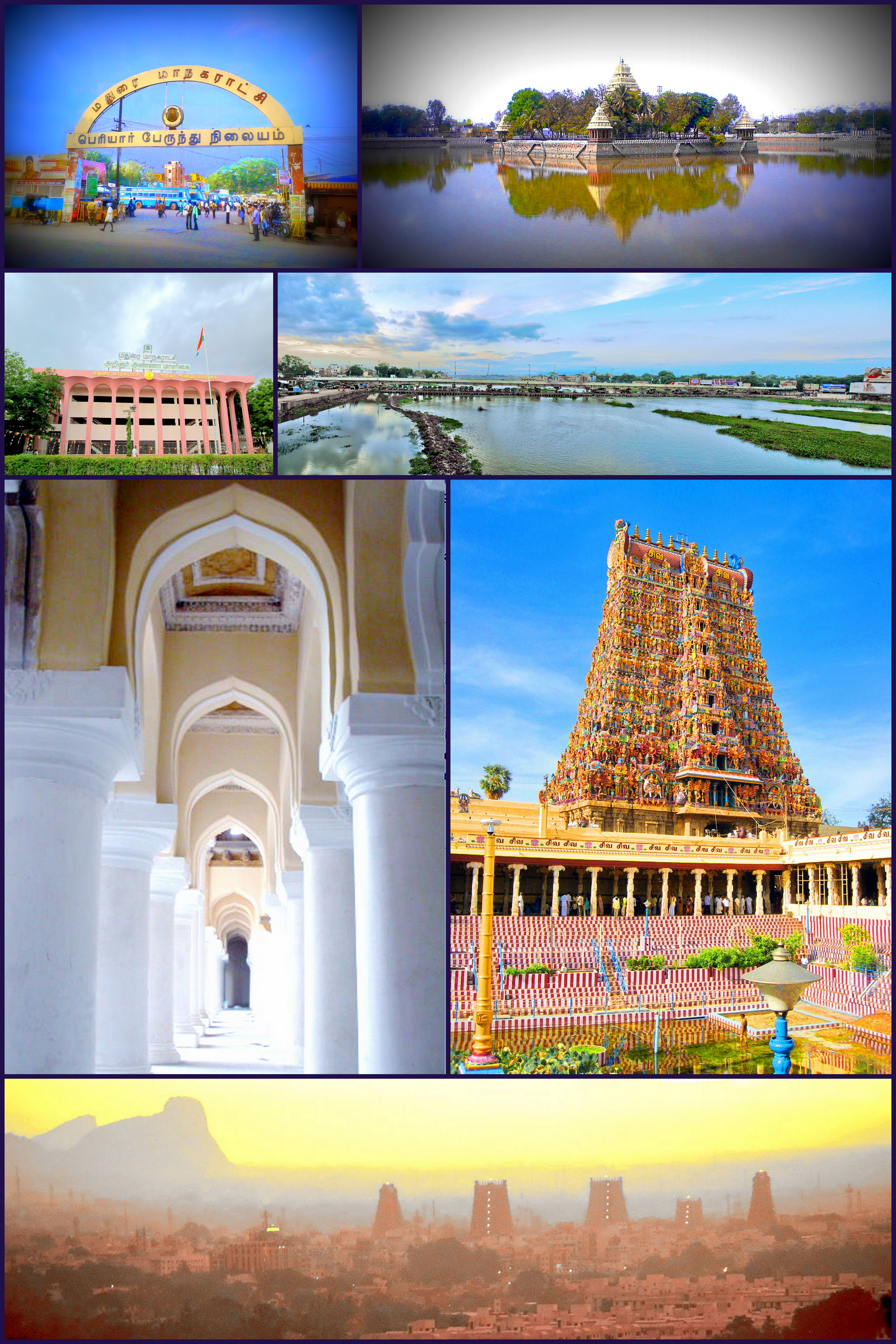 Montage of Madurai landmarks: (From top left) Periyar Bus stand, Vandiyur Mariyamman Tank, Madurai Corporation office, River Vaigai (seen from Albert Victor bridge), Thirumalai Nayak Palace, Southern tower (Gopuram) of Meenakshi Amman Temple and City of Madurai seen far from south-west with Yanaimalai on the backdrops.